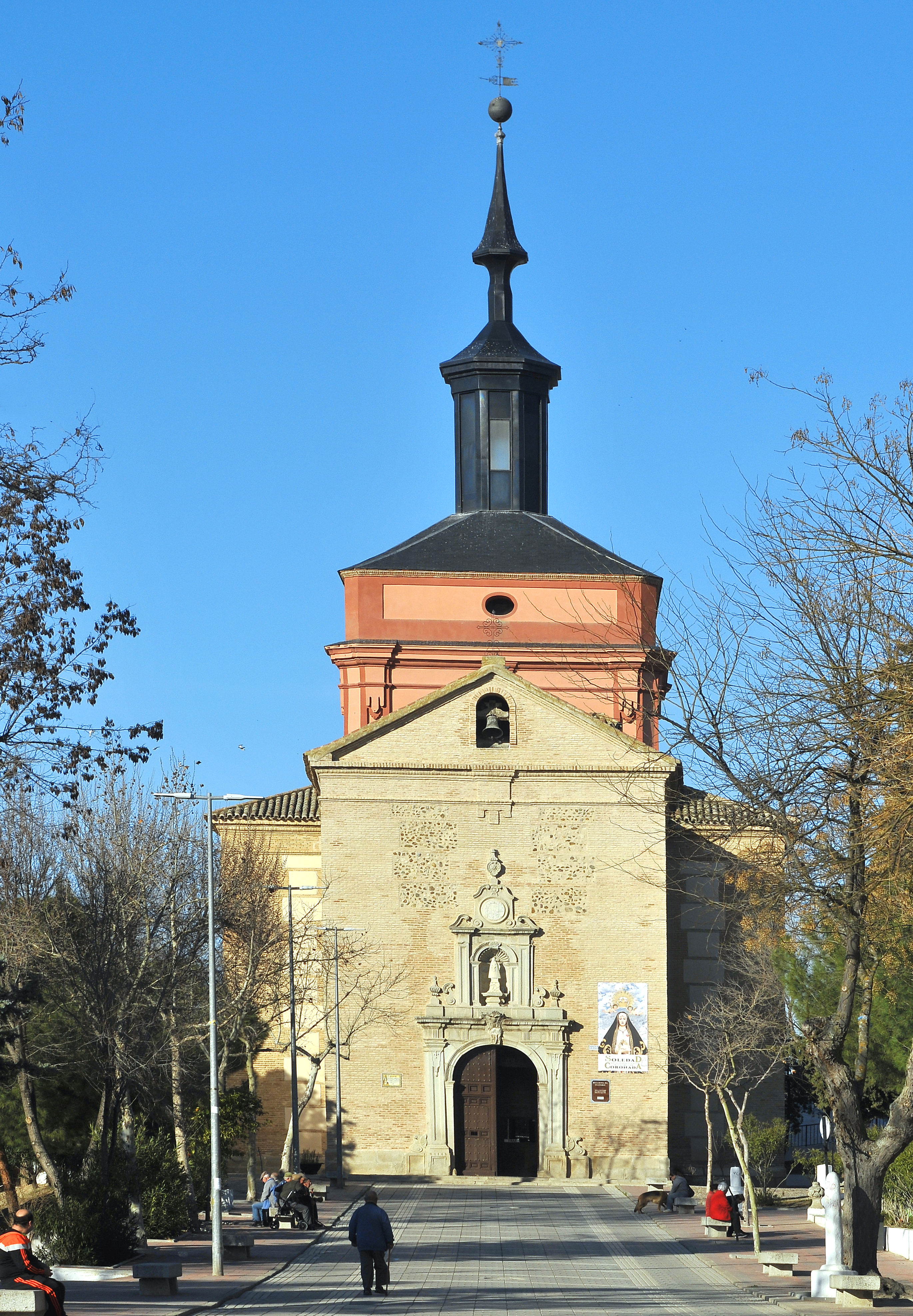 Chapel of Our Lady of Solitude. La Puebla de Montalbán, Toledo, Castile-La Mancha, Spain